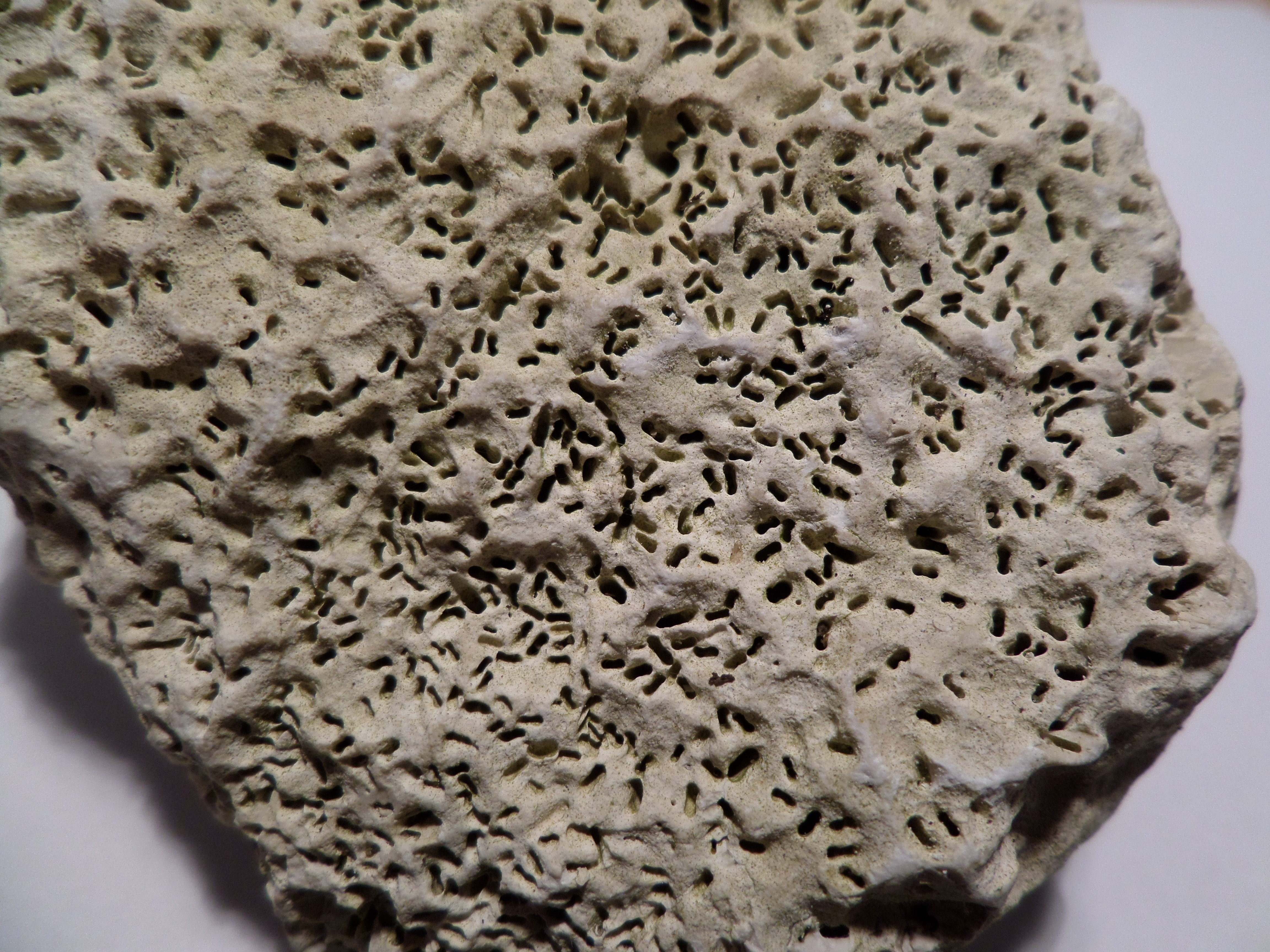 'U' shaped tubes made in limestone by the sedentary polychaete worm Polydora ciliata. The rock was found at Portencross, North Ayrshire, Scotland.